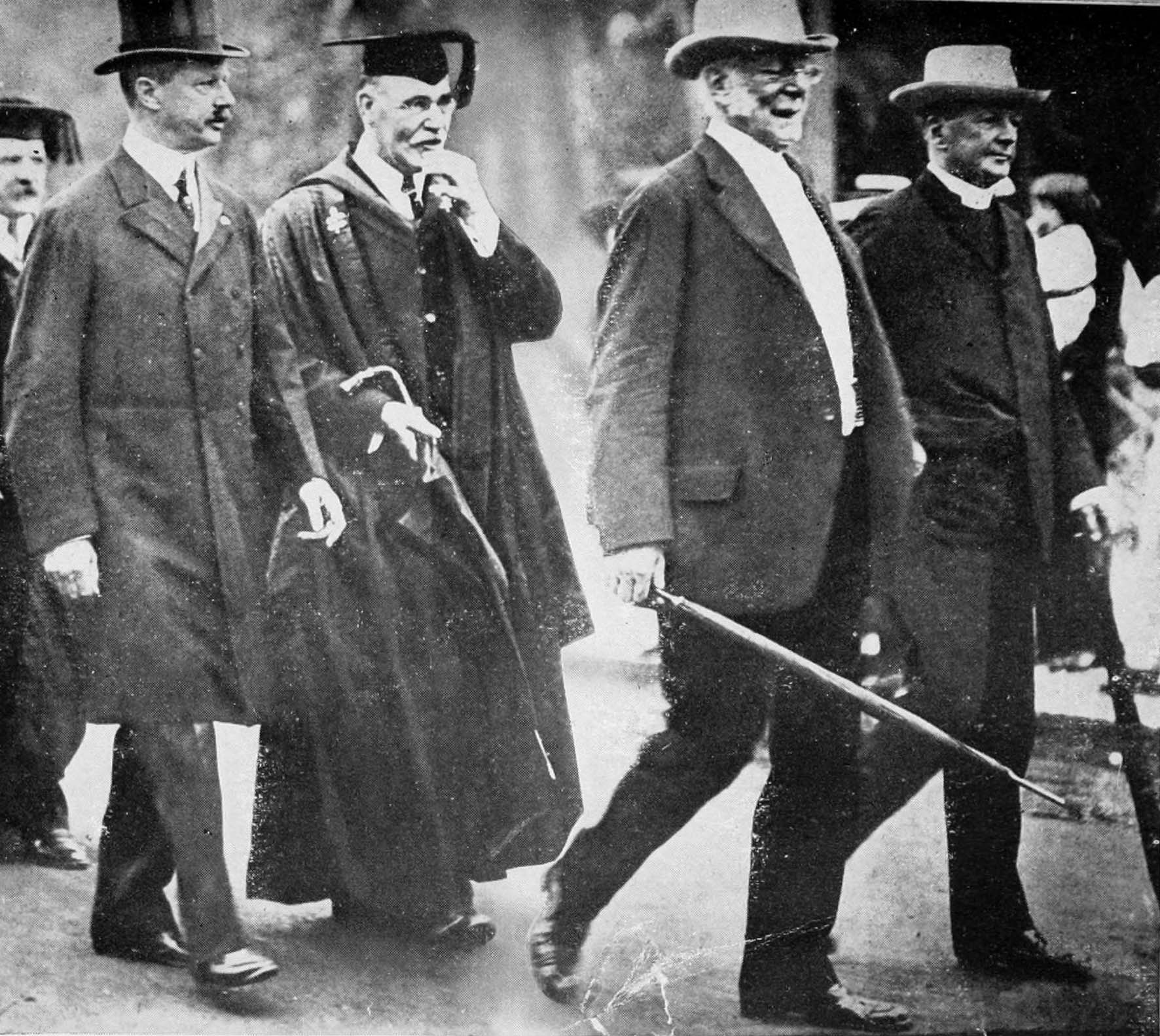 A group at the Harvard University commencement of 1911. From left to right: George von Lengerke Meyer, United States Secretary of the Navy and Class of 1879 (Harvard overseer beginning 1911), Professor of Economics Frank William Taussig (Class of 1879), Harvard President Charles W. Eliot, Bishop Lawrence. Meyer received an LL.D. at this commencement.